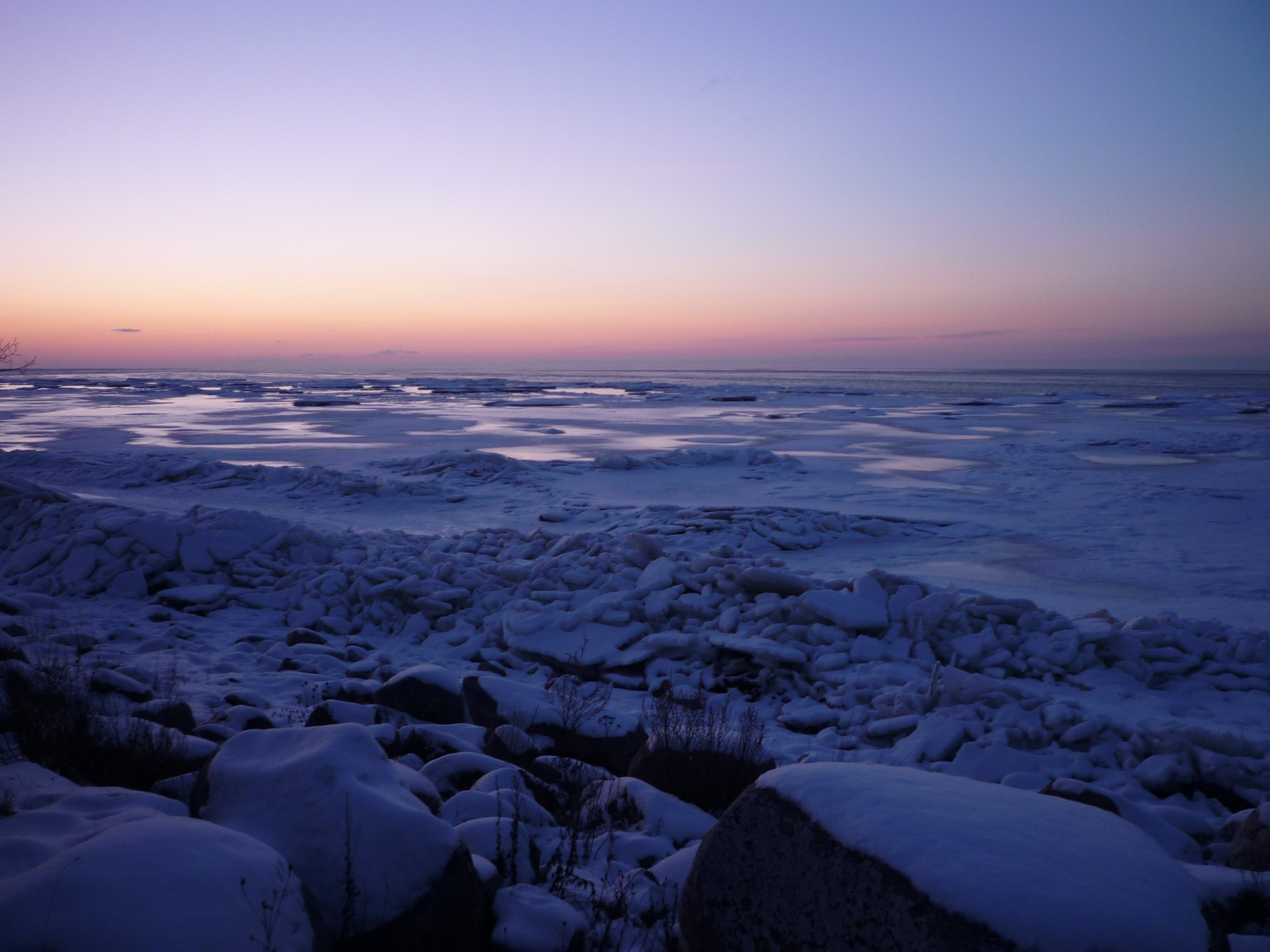 Bay of Kassari, Moonsund. Ice after sunset. View to West from Tammiski nukk, North-West part of island Muhu. Estonia.